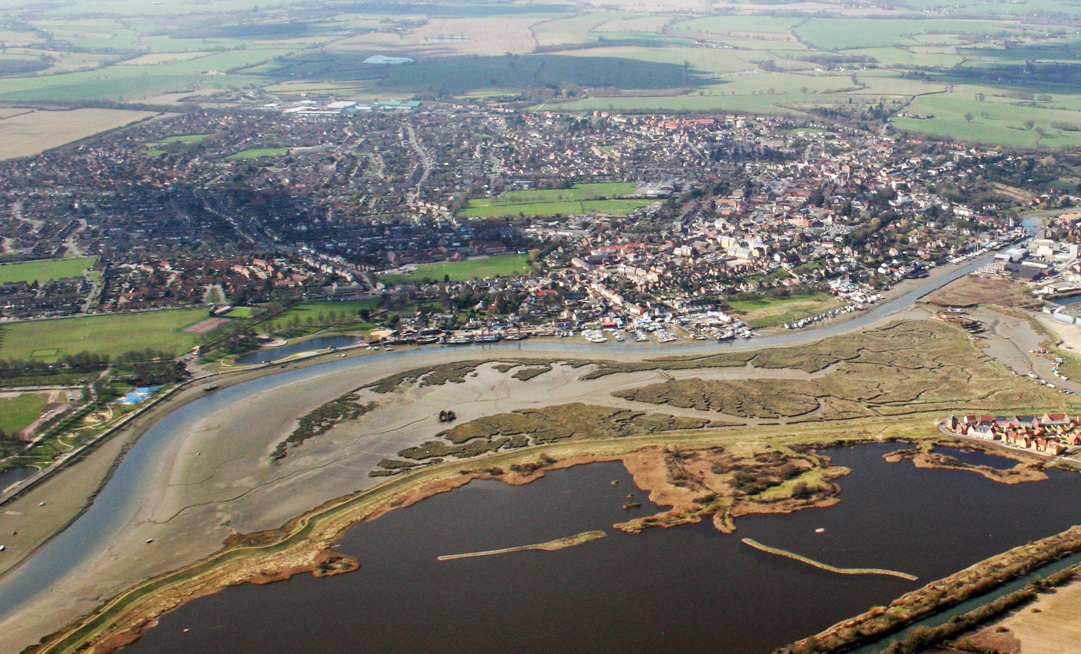 Aerial photo of the town of Maldon, in Essex.